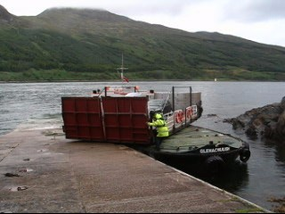 Kylerhea turntable ferry at Isle of Skye, Scotland, United Kingdom. This is the only turntable ferry in the United Kingdom, and probably is the only one in operation in the world.